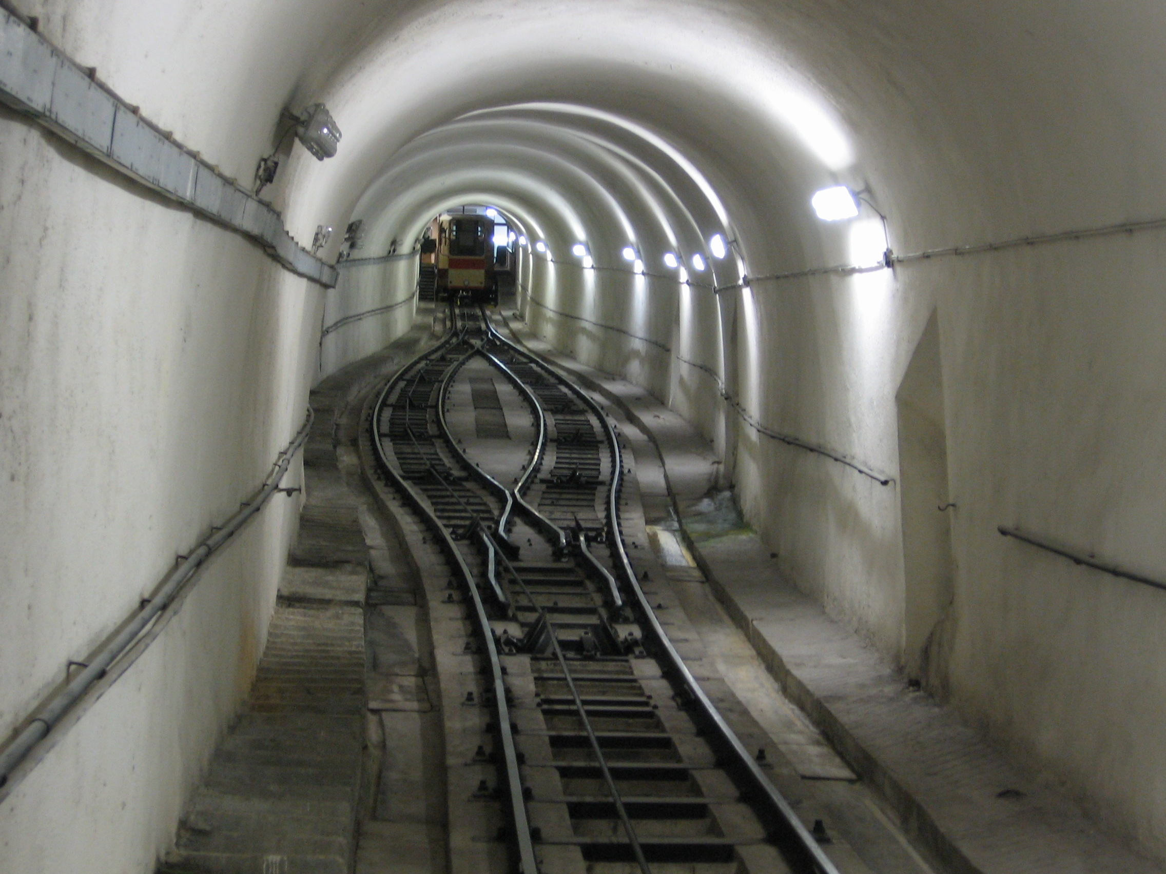 Imperial funicular, Karlovy Vary, view from the lower station